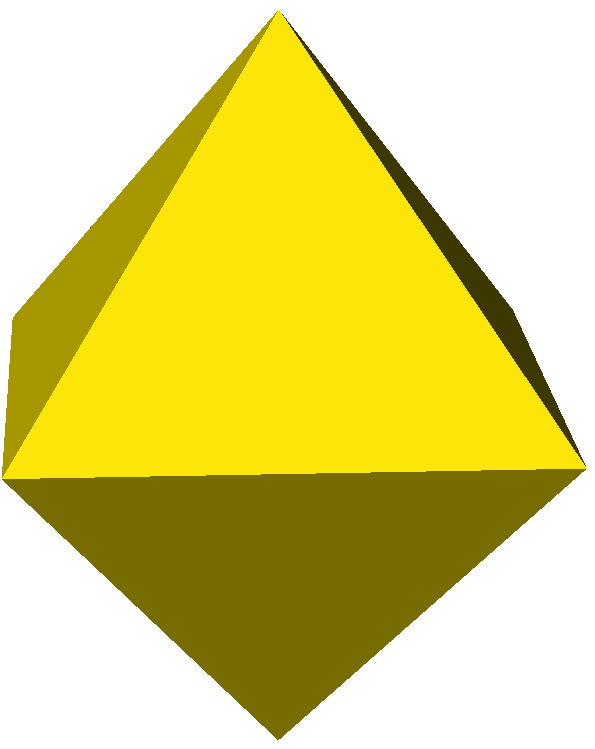 Octahedron as dual to cube.